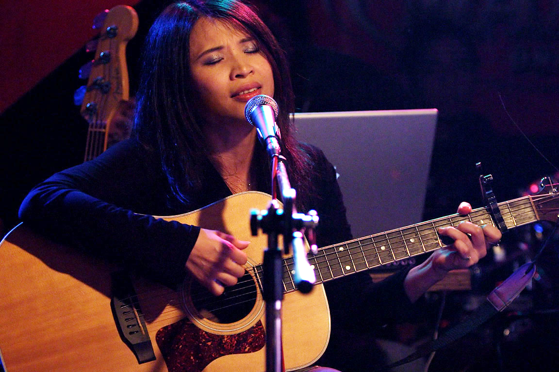 iCat_Weng